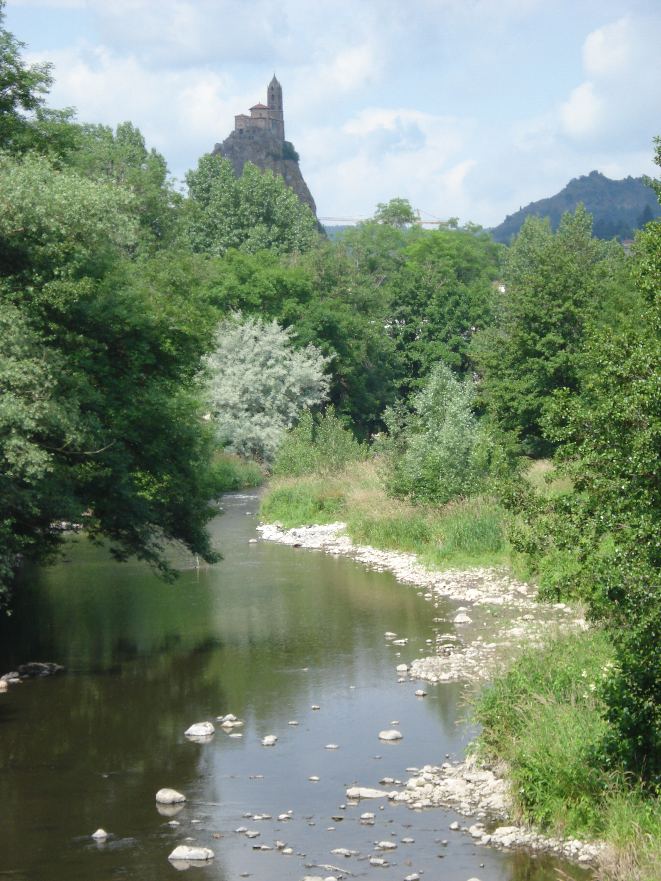 Borne River at Le Puy-en-Velay (Haute-Loire, Fr), near its confluence with the Loire River at Chadrac